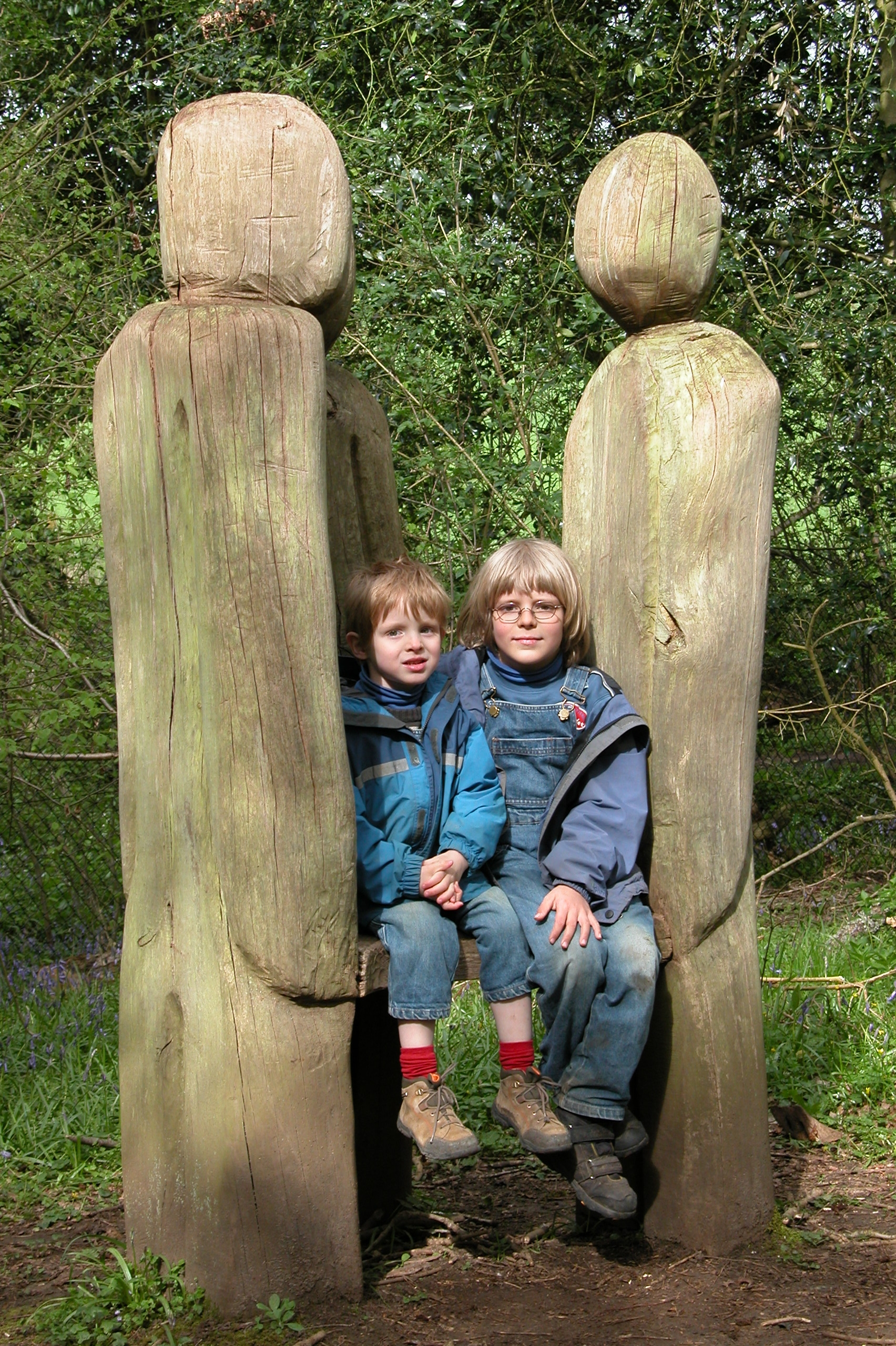 Woodland Walk at Chiltern Open Air Museum Waldpfad im Chiltern Open Air Museum